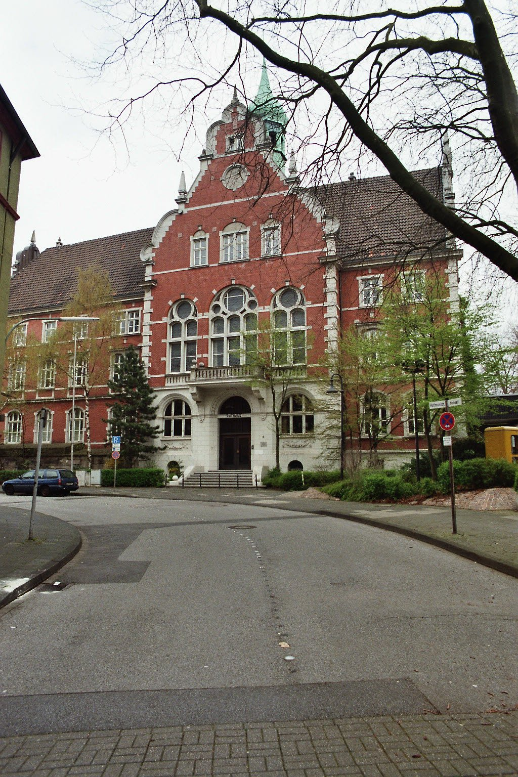 The former town hall of Wanne-Eickel, Germany.